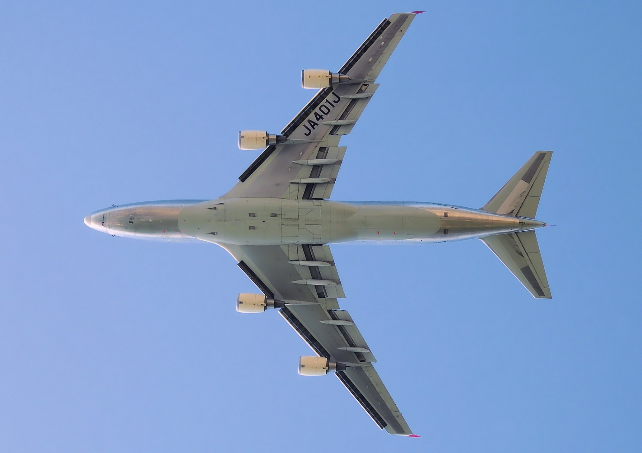 JALCargo Boeing 747-400 (JA401J) takes off from London Heathrow Airport, England. The undercarriages have fully retracted. To take this picture I stood on a footpath exactly under the take-off route of the aircraft. I waited for the aircraft to be exactly overhead and pressed the shutter button.